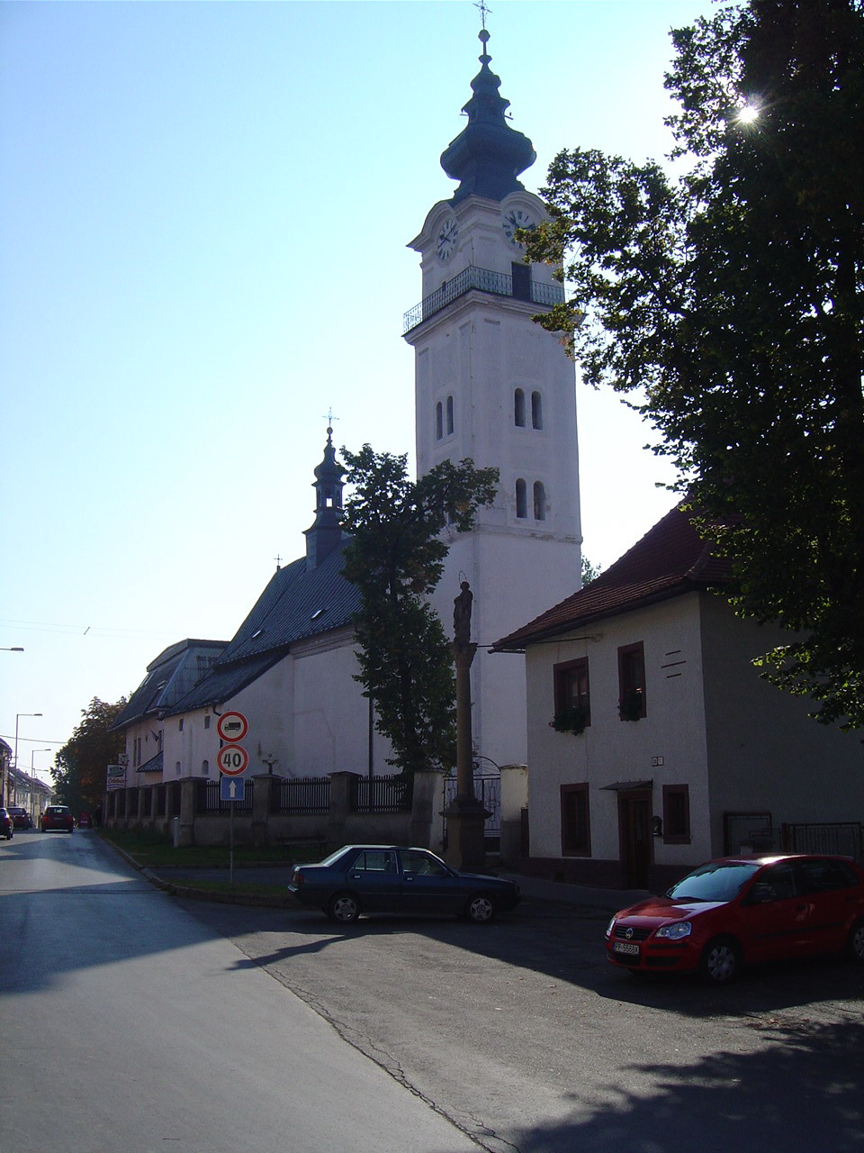 Square of Velka